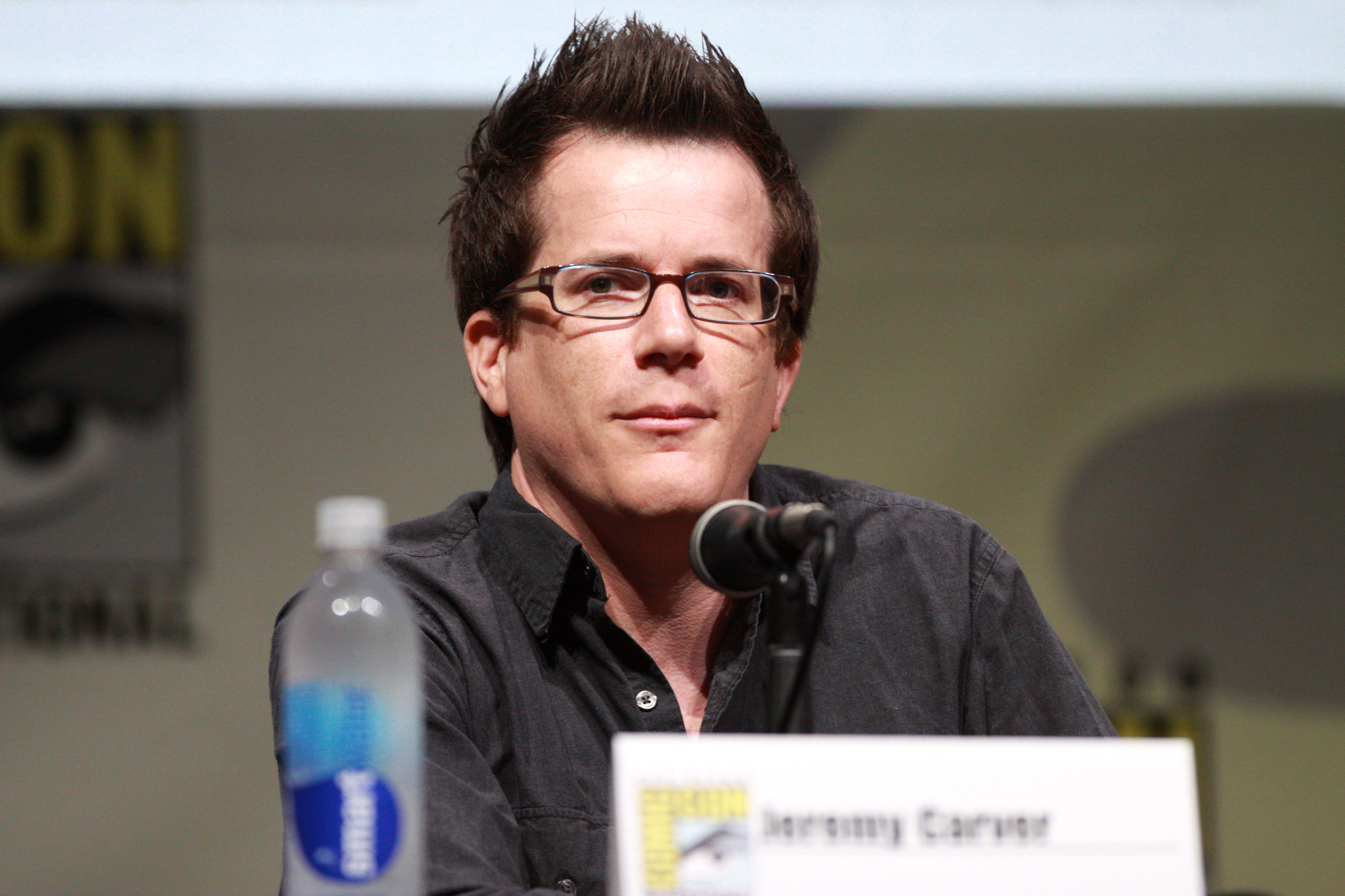 Jeremy Carver speaking at the 2013 San Diego Comic Con International, for "Supernatural", at the San Diego Convention Center in San Diego, California.